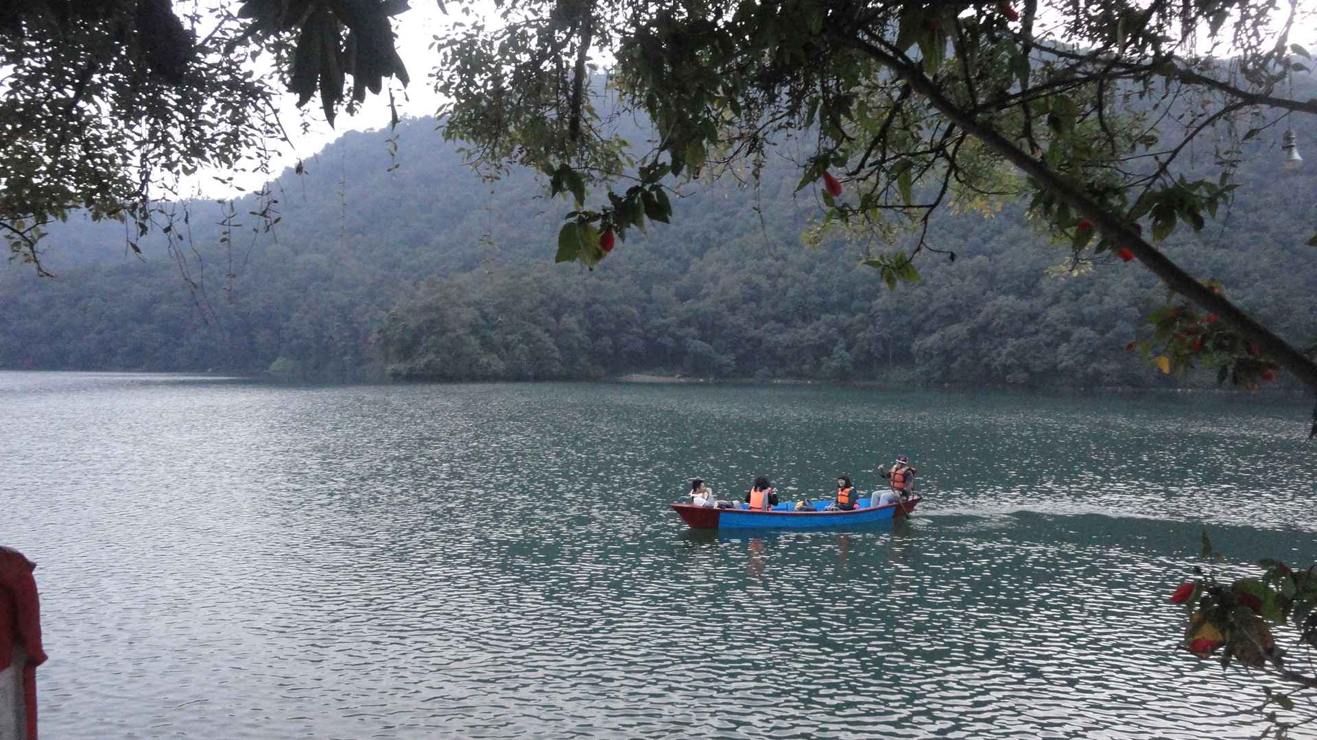 This photo shows boating in Phewa Lake. Photo taken from Tal Barahi Temple's surface.